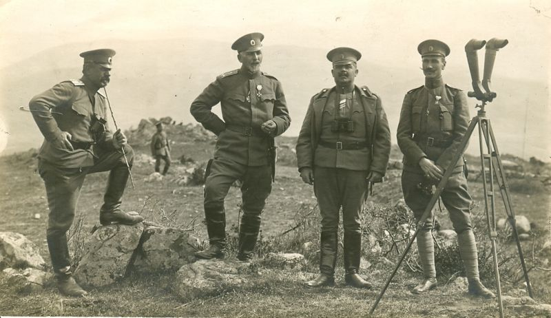 Colonel Vladimir Vazov at Furka.